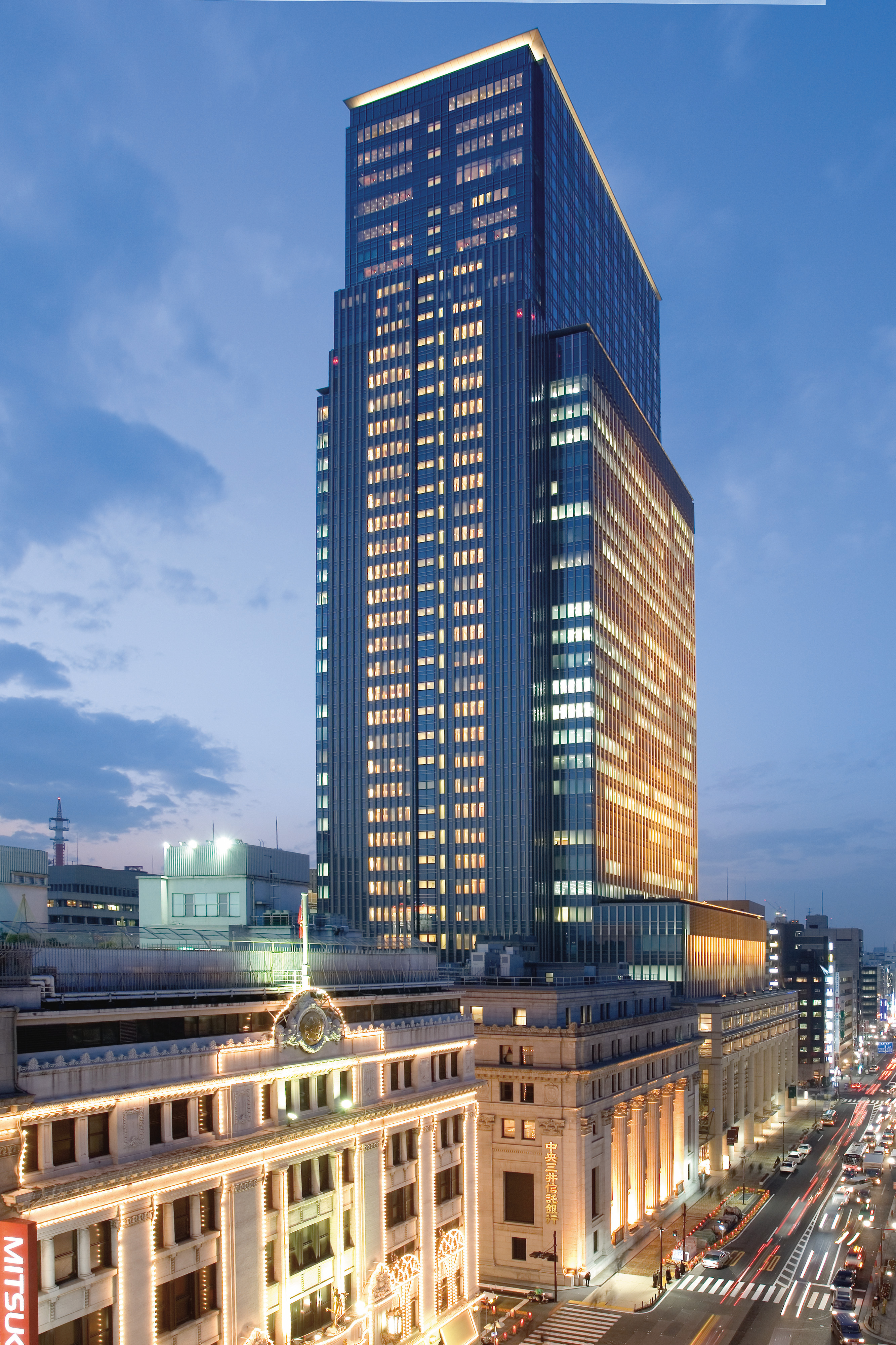 Exterior view of Nihonbashi Mitsui Tower and Mandarin Oriental, Tokyo